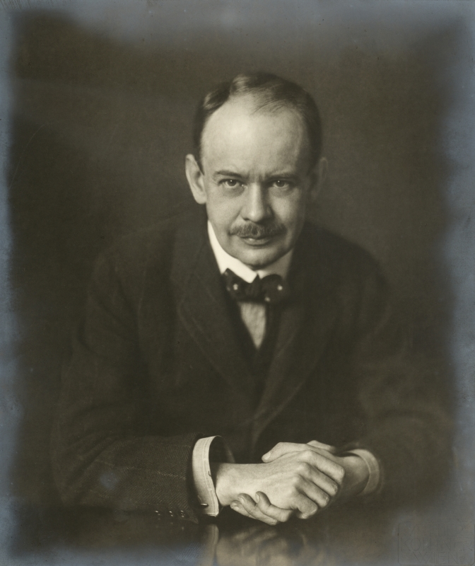 Art historian Max Dvořák, photographic portrait